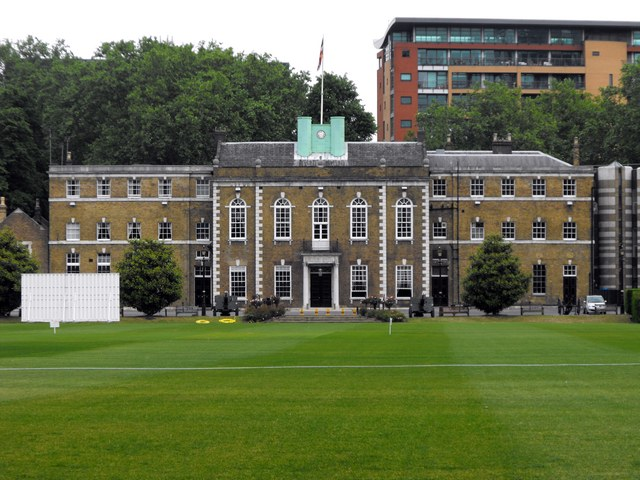 Armoury House, Finsbury, London, the headquarters of the Honourable Artillery Company (HAC). Seen through the Artillery Field's southern gates at the north end of Finsbury Street EC2.